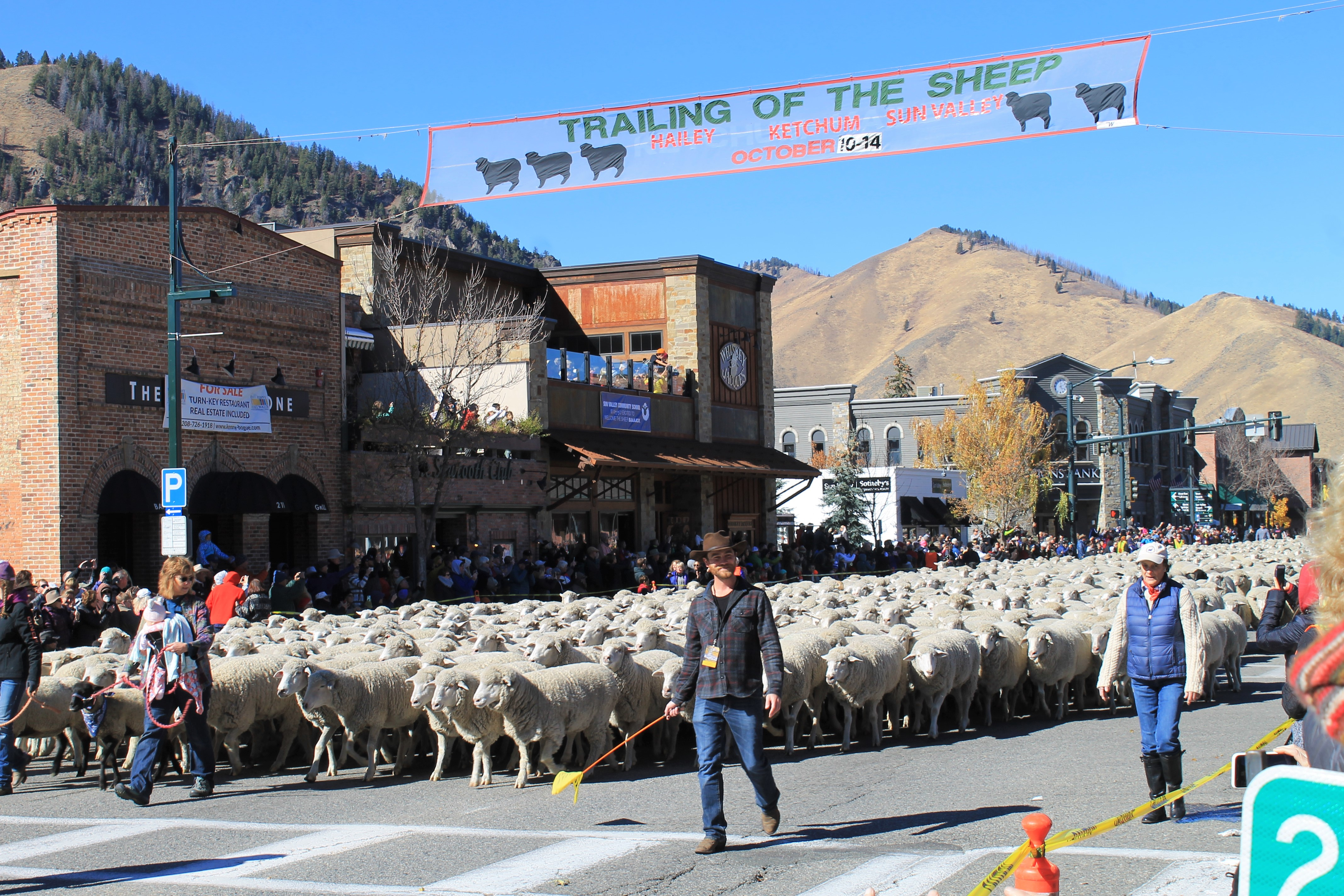 This is a photo from the Trailing of the Sheep Parade in 2018.